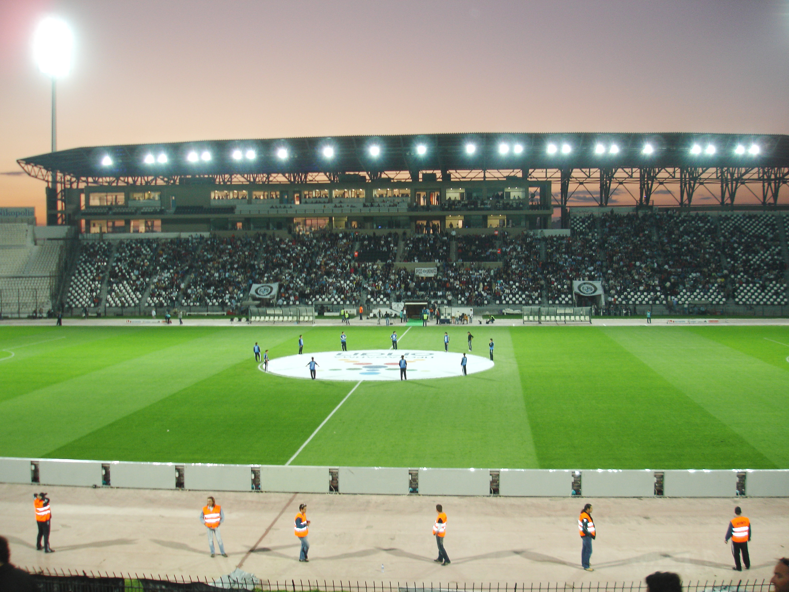 Thessalonioki, Stadium of PAOK